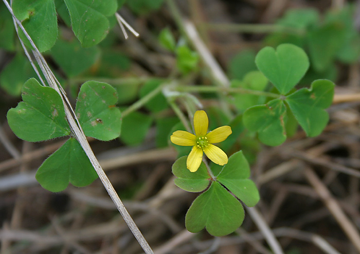 Creeping Woodsorrel Oxalis corniculata in Talakona forest, in Chittoor District of Andhra Pradesh, India.